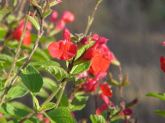 Species: Salvia blepharophylla Family: Lamiaceae Image No. 2